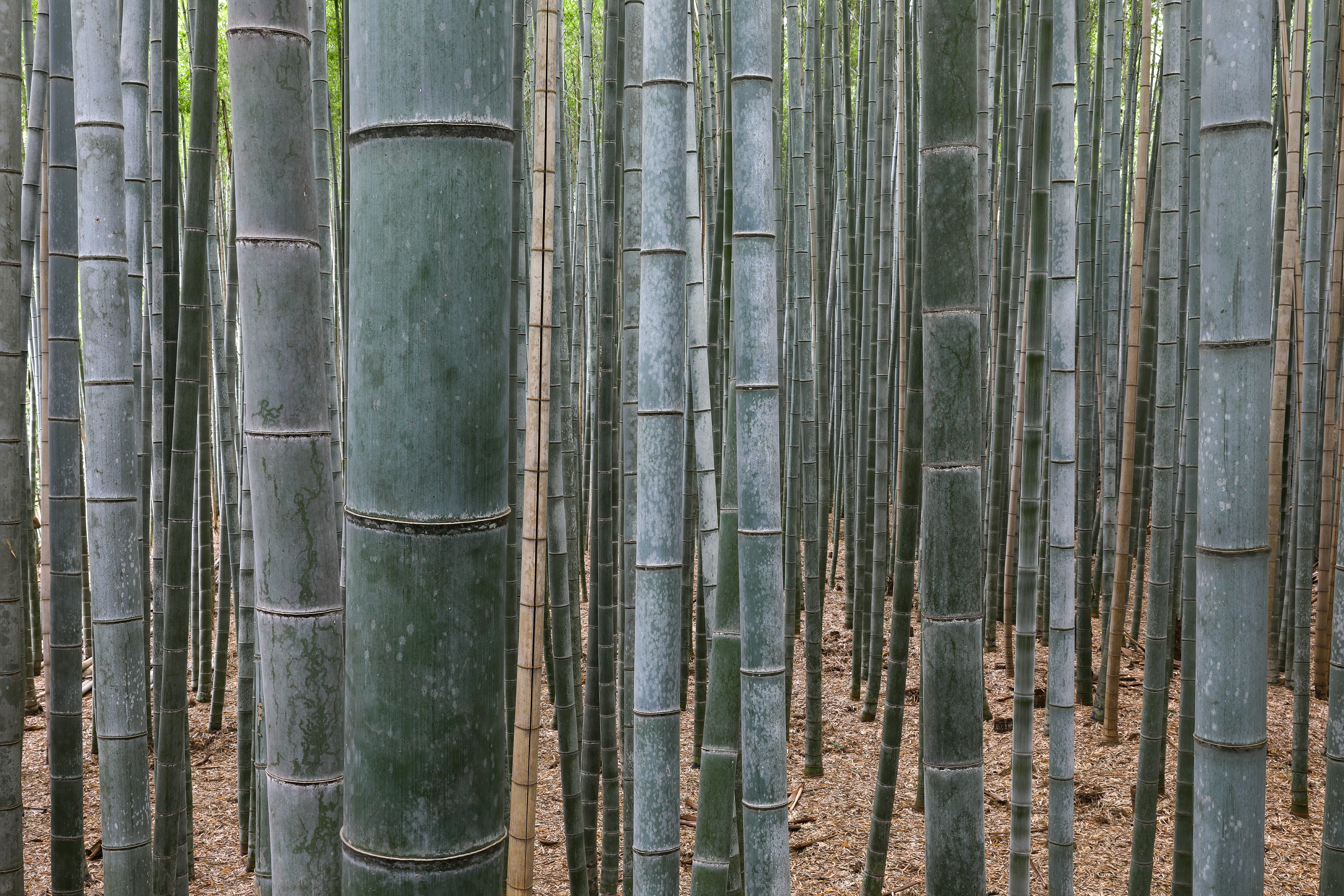 Bamboo Forest, Arashiyama, Kyoto, Japan. Focus stacking from 6 pictures (long exposure photography).